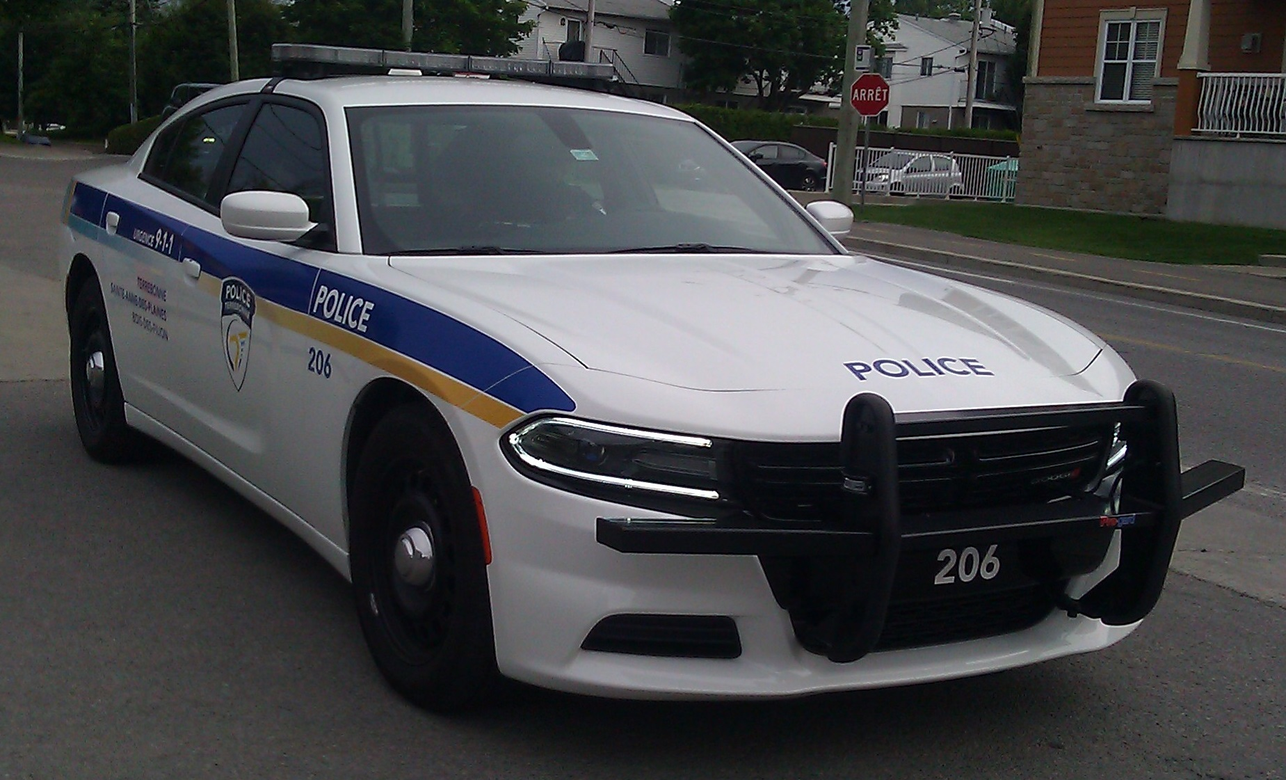 2015 Dodge Charger photographed in Bois-Des-Filion, Quebec, Canada. Note this is a vehicle of the Terrebonne police, which covers Bois-Des-Filion, Terrebonne & Ste. Anne Des Plaines.